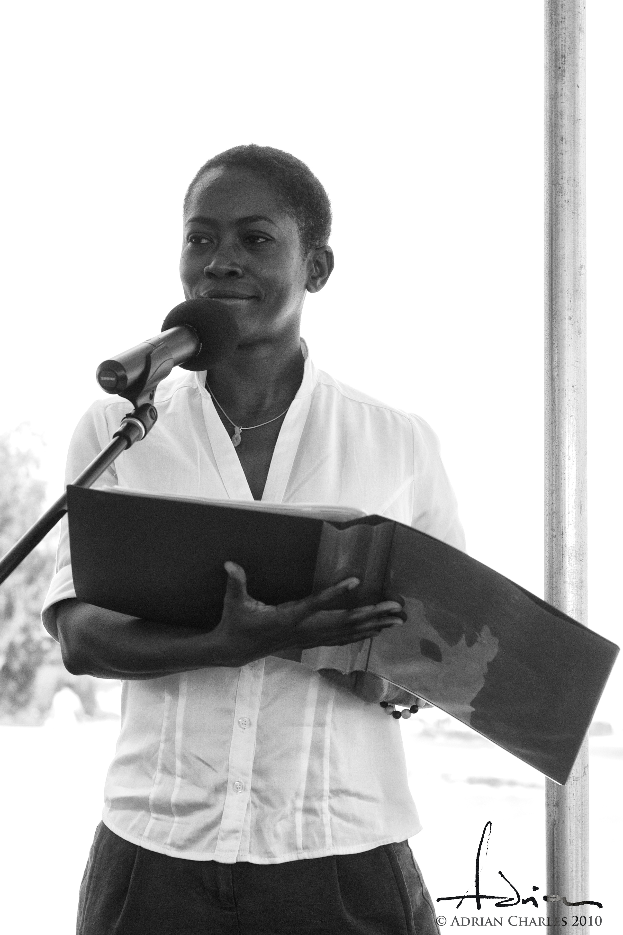 Karen Lord, reading at an environmental awareness literary event in Barbados, 2009.